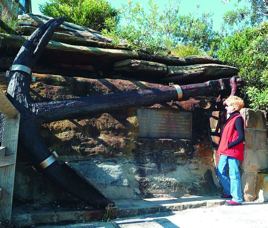 Anchor from DUNBAR shipwreck, 1857